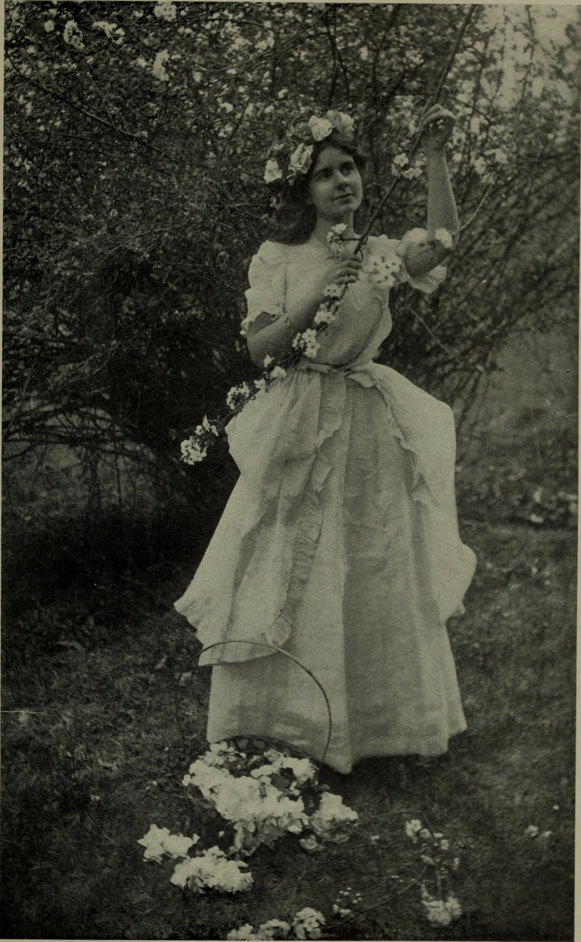 Title: The American annual of photography Year: 1911 (1910s) Authors: Subjects: Photography Publisher: New York : Tennant and Ward Text Appearing Before Image: to clear glass,which in the print will give black ground. This is a favoritemethod with me, using a suitable background negative to printin with the portrait, doing it in one printing. This method can also be used for clearing the backgroundsin prints. Coat the image with the varnish as in the negative,and put in the reducing solution until the ground is all clearedor while, and washed and dried. With prints, though, theasphaltum cannot be used nor will the rubber work so well, butthe celluloid works to perfection and can be removed or cleanedas in the case with negatives. I seldom clean it off the prints;instead, after the print is dry, coat the whole print with thesame varnish which gives it a slight sheen, giving transpar-encies to the shadows as does the waxing solutions now so ex-tensively used. If any of the readers of the Annual who have occasion forlocal reduction or intensification will give this method a trialthev will find that verv satisfactorv results can be obtained. 220 Text Appearing After Image: MAY DAY. KATE MATHEWS. PICTORIAL WORK By H. OLIVER BODINE.